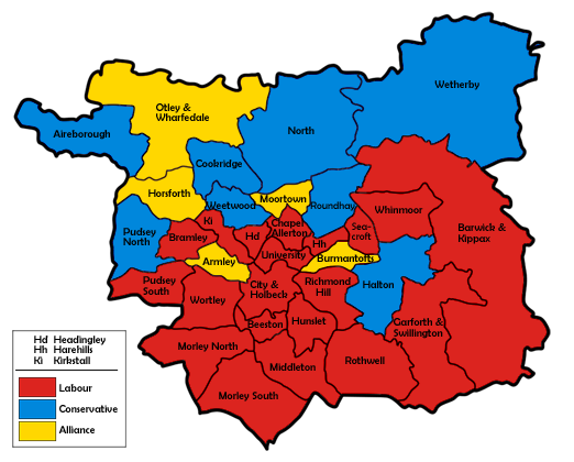 Ward map of Leeds City Council with political colouring for the 1986 election.